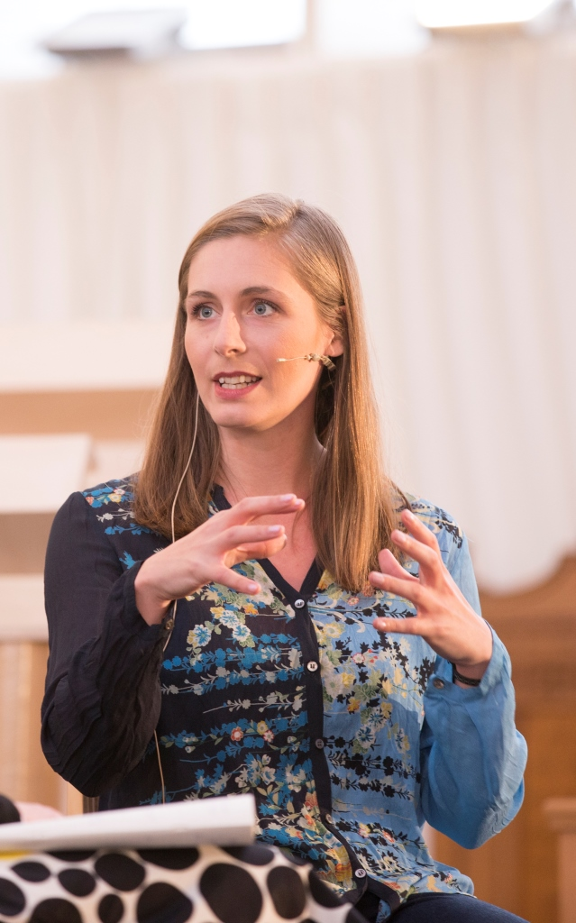 Eleanor Catton speaking at WORD Christchurch 2014 Gala opening